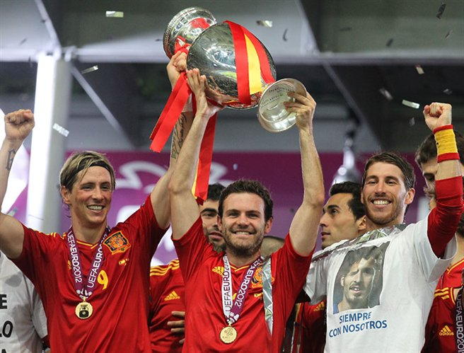 Fernando Torres, Juan Mata and Sergio Ramos with Euro 2012 trophy